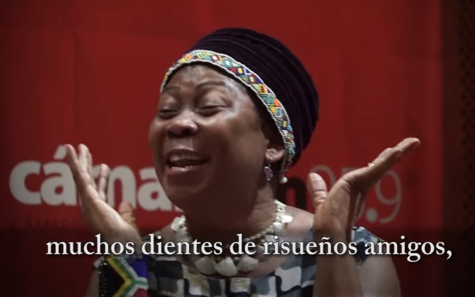 Gcina Mhlophe (Suráfrica). Festival Internacional de Poesía de Medellín in 2016 Nokugcina Elsie Mhlophe aka Gcina Mhlope (born 1958) is a well-known South African freedom fighter, activist, actor, storyteller, poet, playwright, director and author.